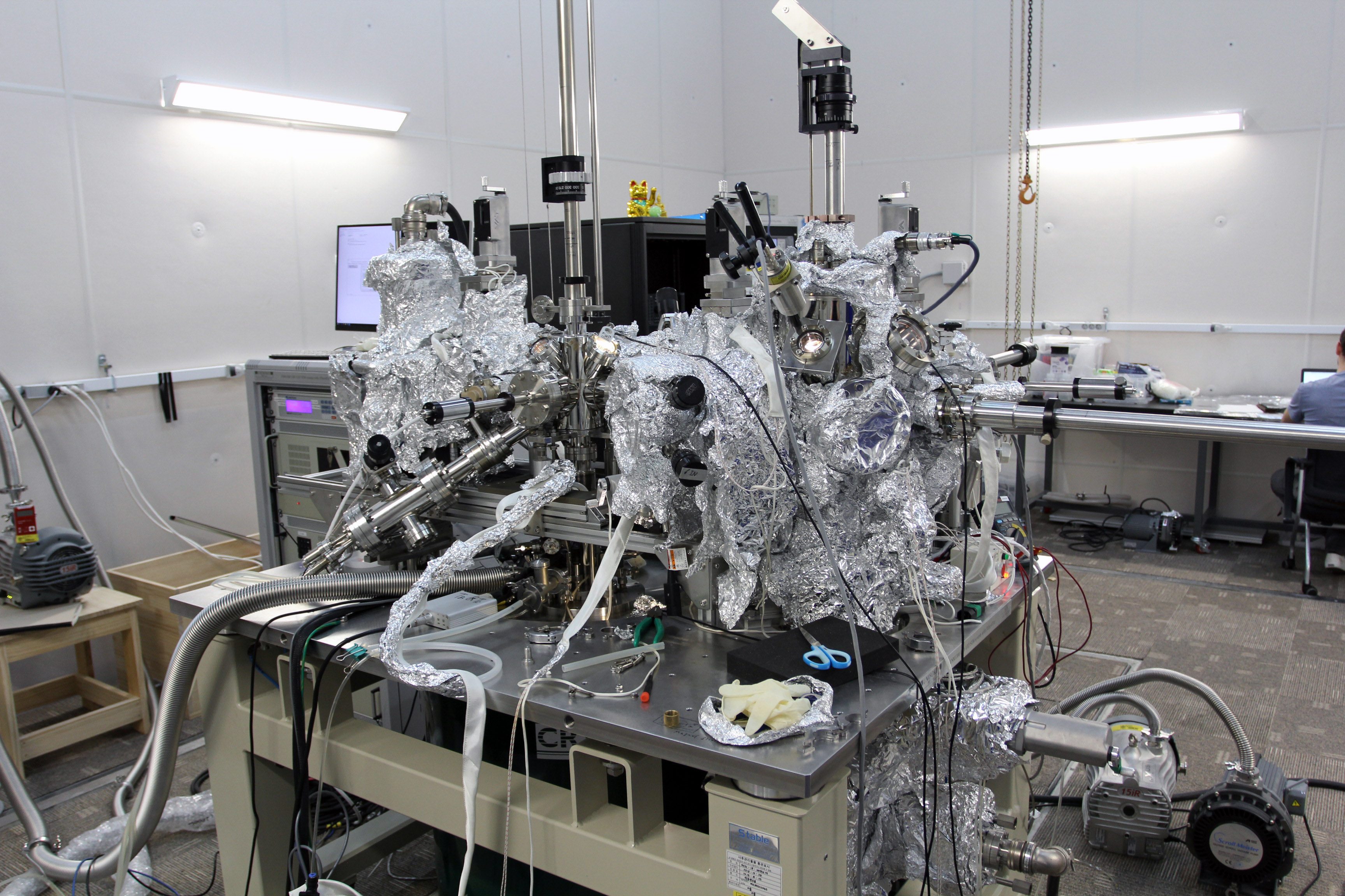 This electron spin resonance (ESR) scanning tunneling microscope (STM) is one of the first in the world to allow measurement of electron spin resonance on single atoms. Viewed on a guided tour.